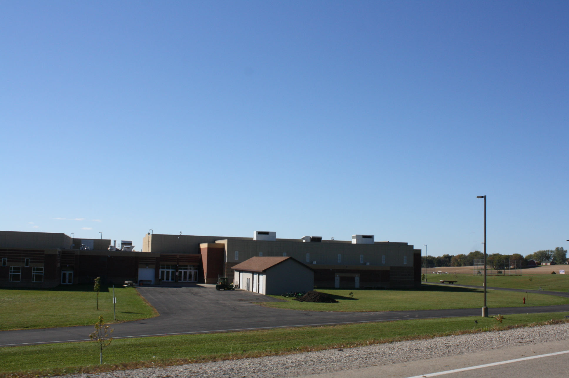 Dodgeland High School in Juneau, Wisconsin along Wisconsin Highway 26.